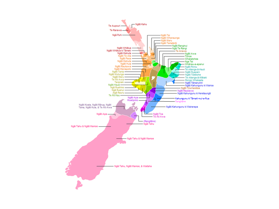 kupe with tamaki nui a rua added